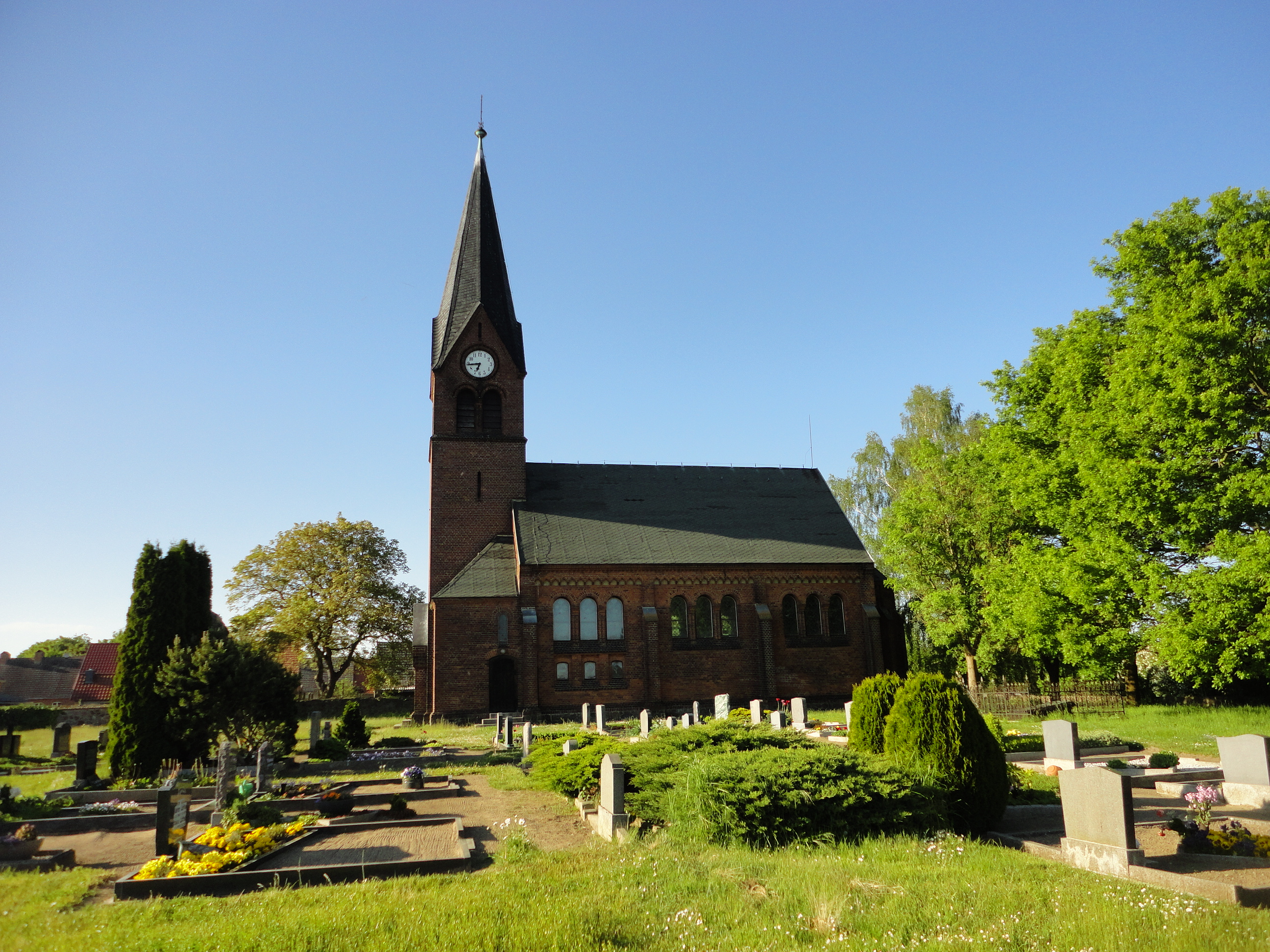 Southern view of Schulzendorf church, Sonnenberg municipality, Oberhavel district, Brandenburg state, Germany